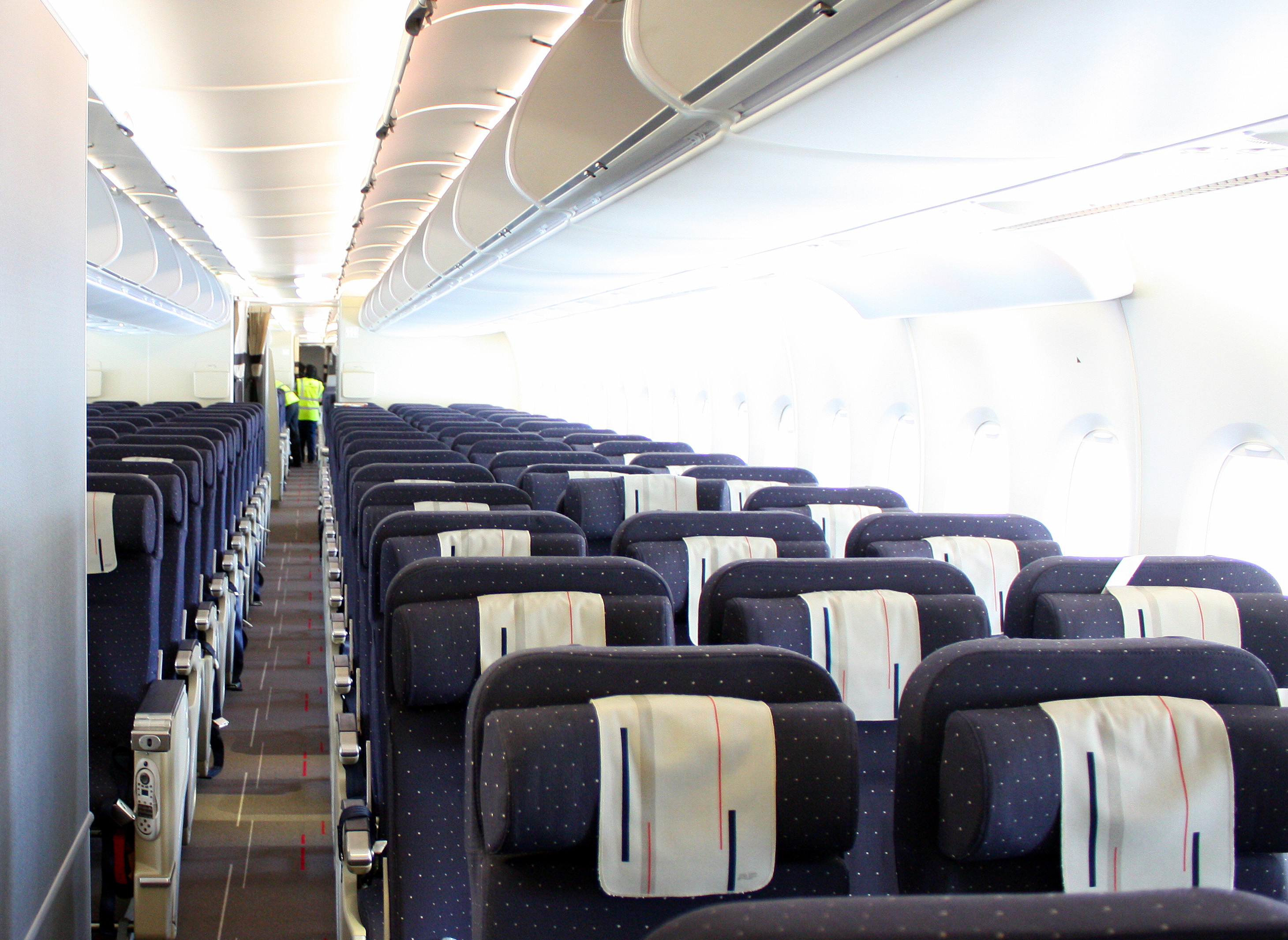 Economy section on Air France A380 F-HPJB